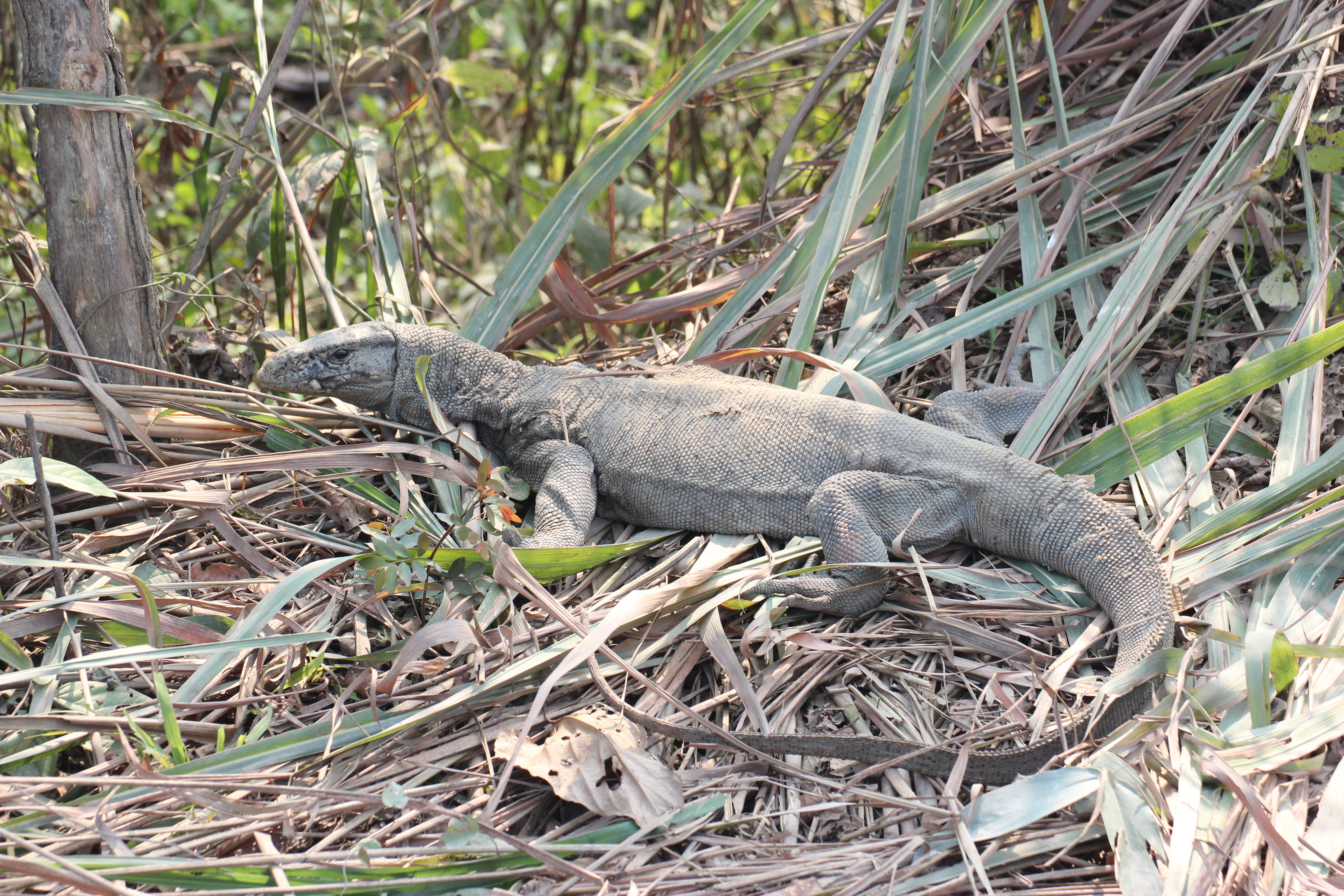 This specimen was observed at Kaziranga National Park, Assam, India.